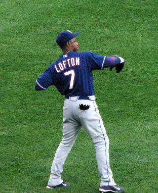 Kenny Lofton